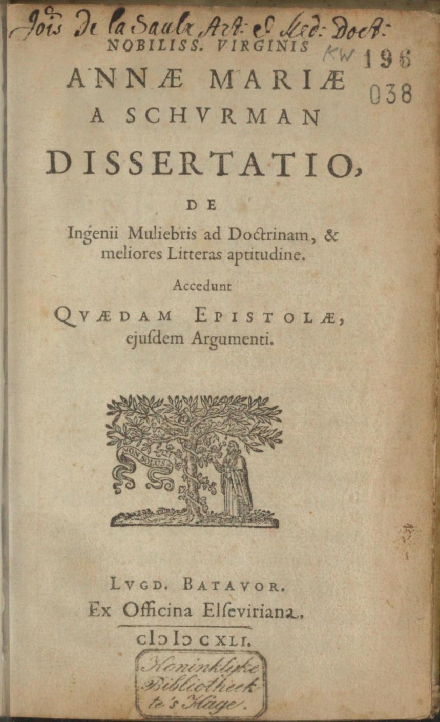 Anna Maria a Schurman: Dissertatio de Ingenii Muliebris ad Doctrinam, & meliores Litteras aptitudine. Accedunt quaedam epistolae, ejusdem Argumenti. Leiden, 1641. Translation of the title: Dissertation on the talent of the woman for study, and aptitude for the better Letters. Added are some letters about the same argument.